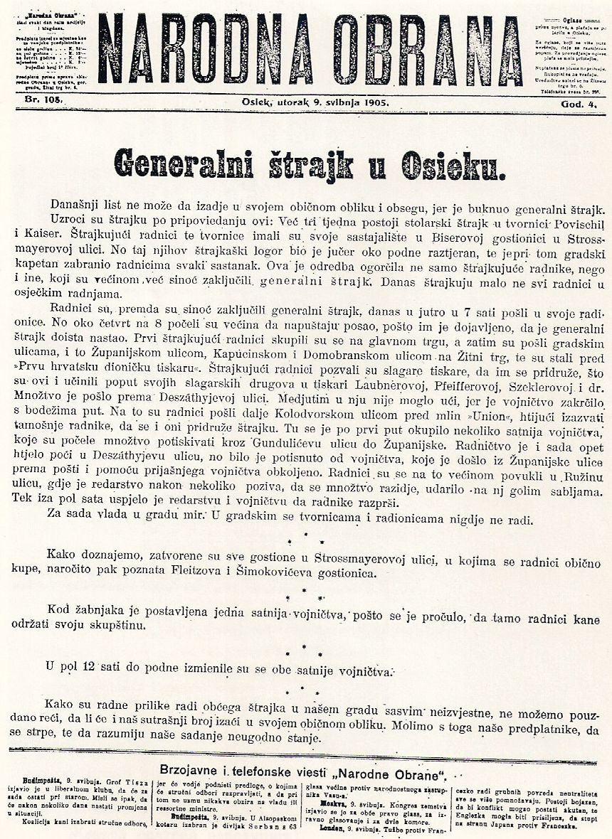 General strike in Osijek, Croatia, in 1905